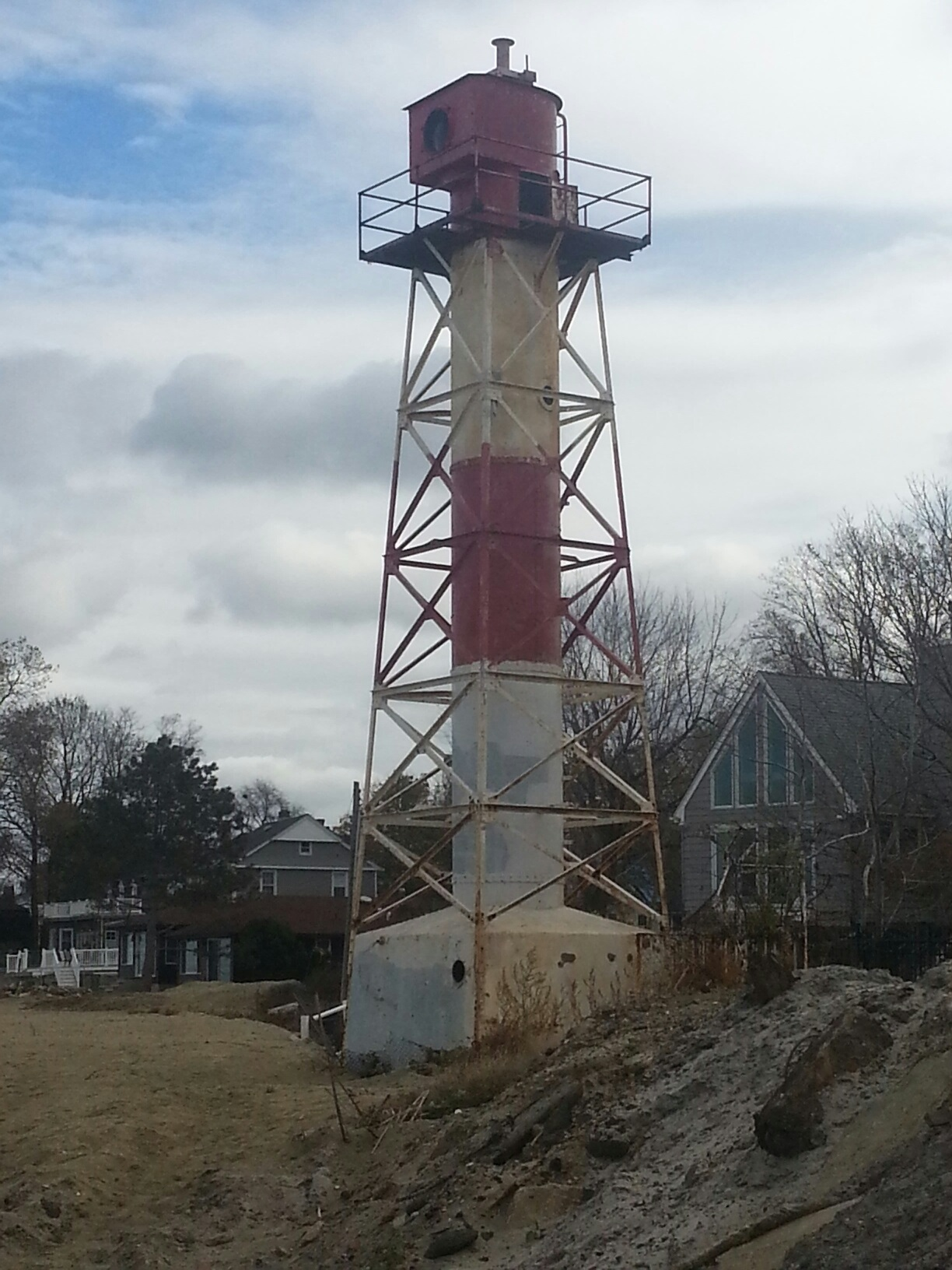 Picture of Conover Beacon in the Leonardo section of Middletown Township, NJ